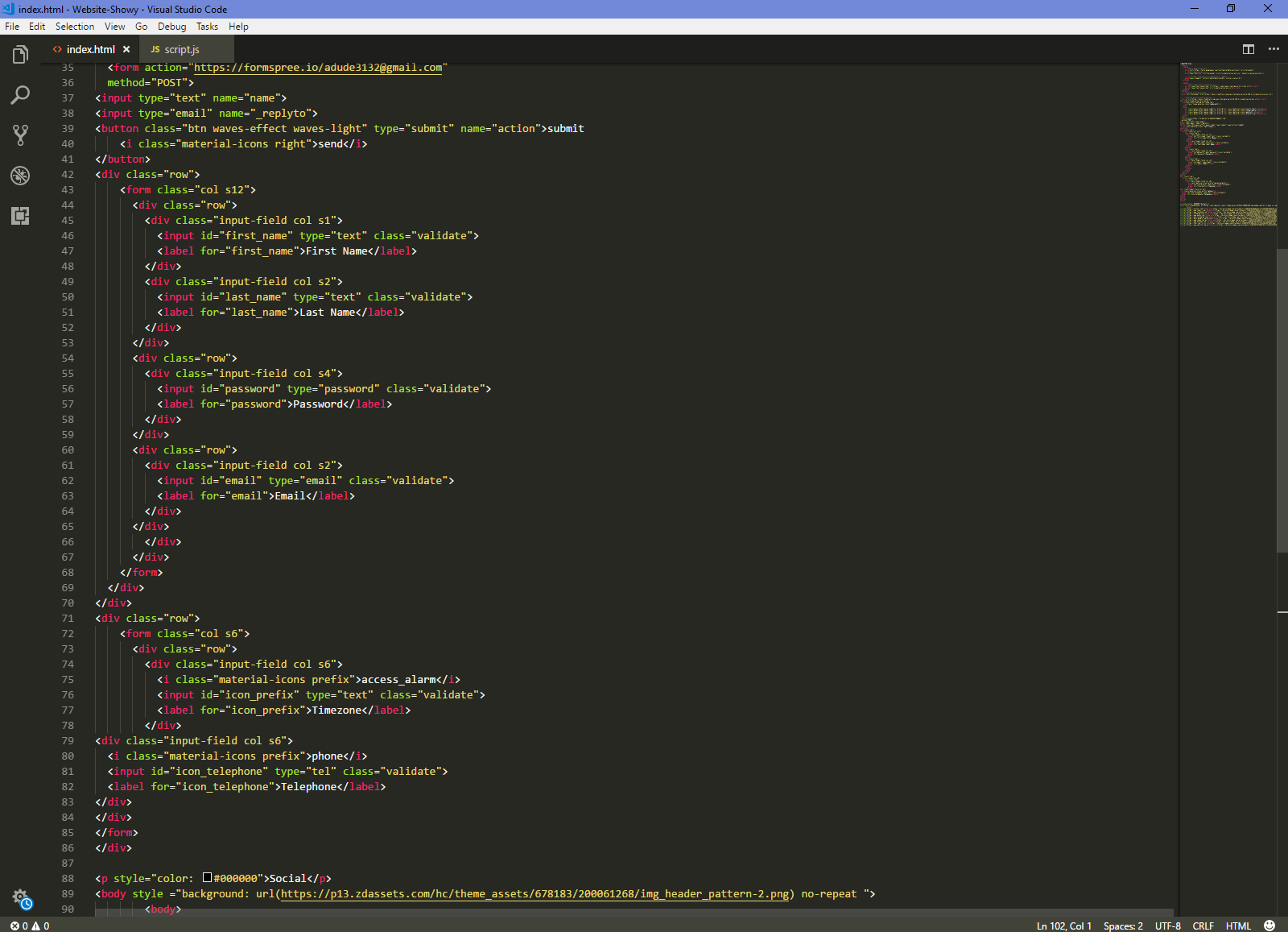 something